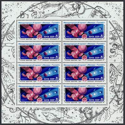 Stamp of USSR